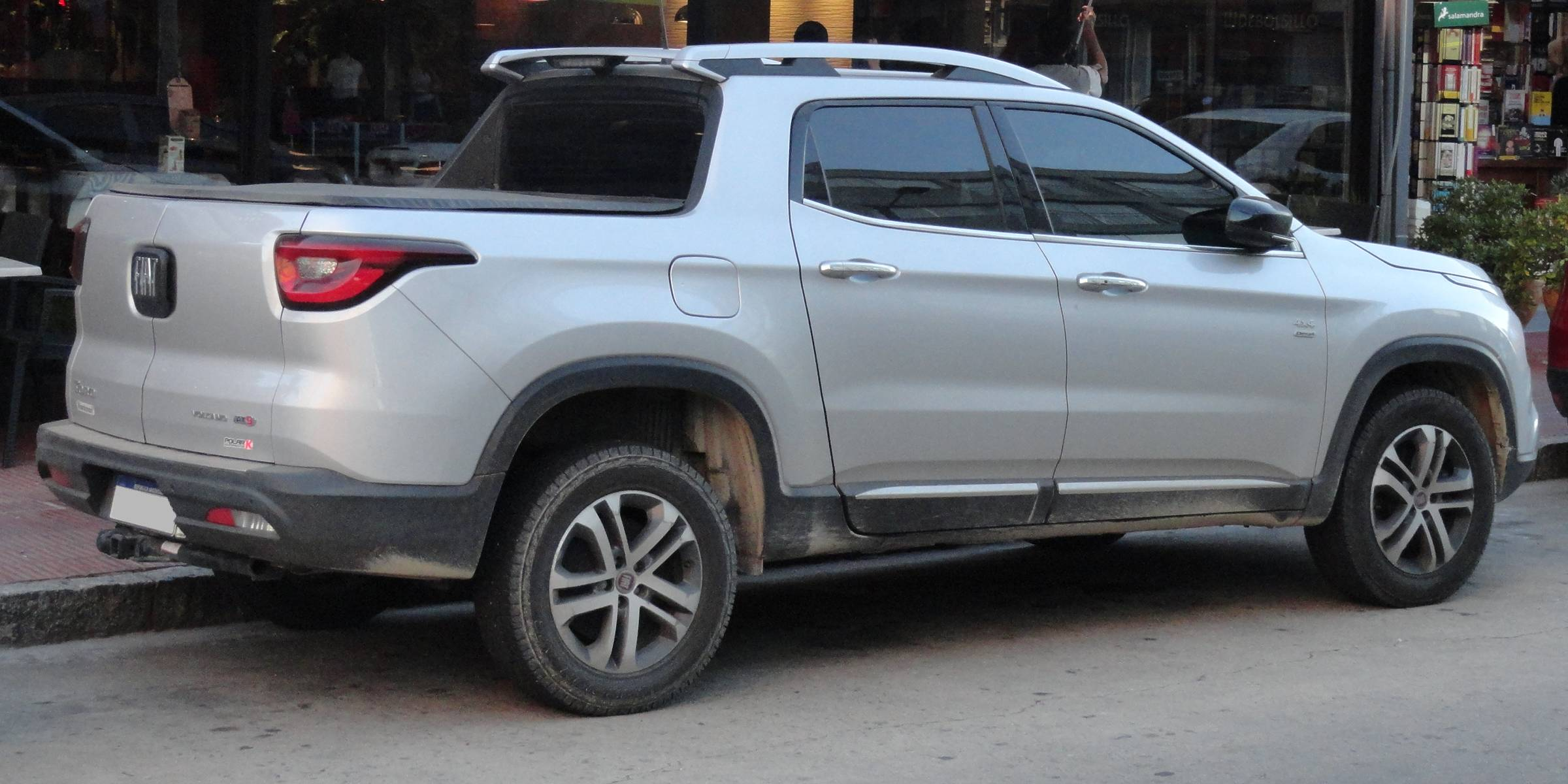 Fiat Toro 2018 in Punta del Este.